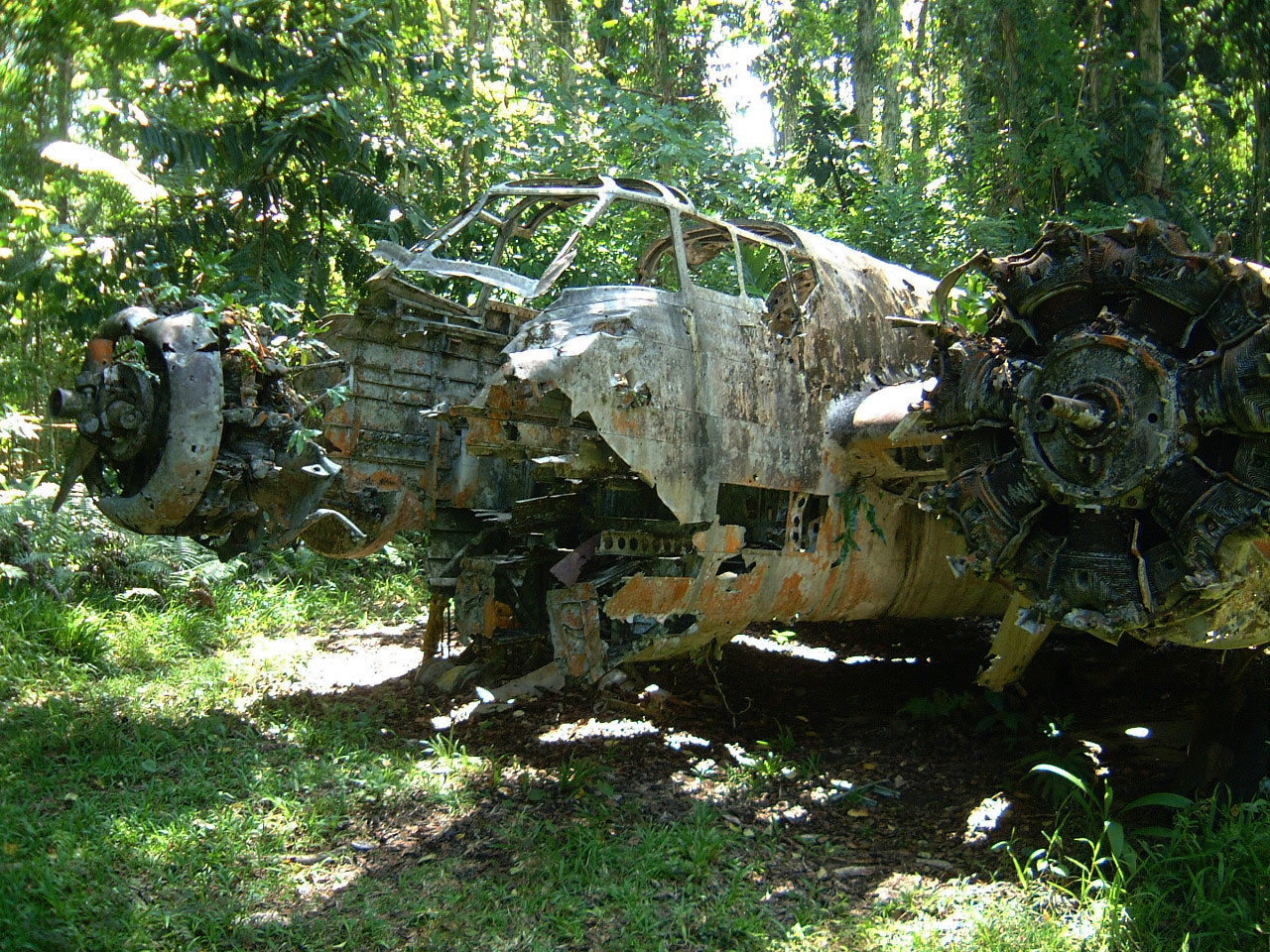 Ki-49-IIc 3220 Front section showing the radial engines and cockpit